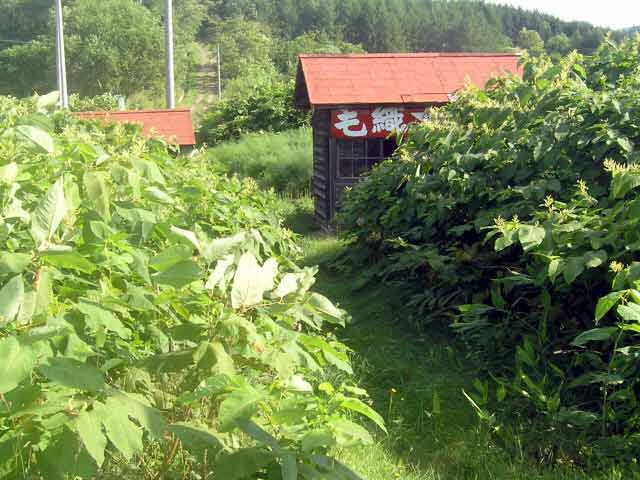 Hokusei Station